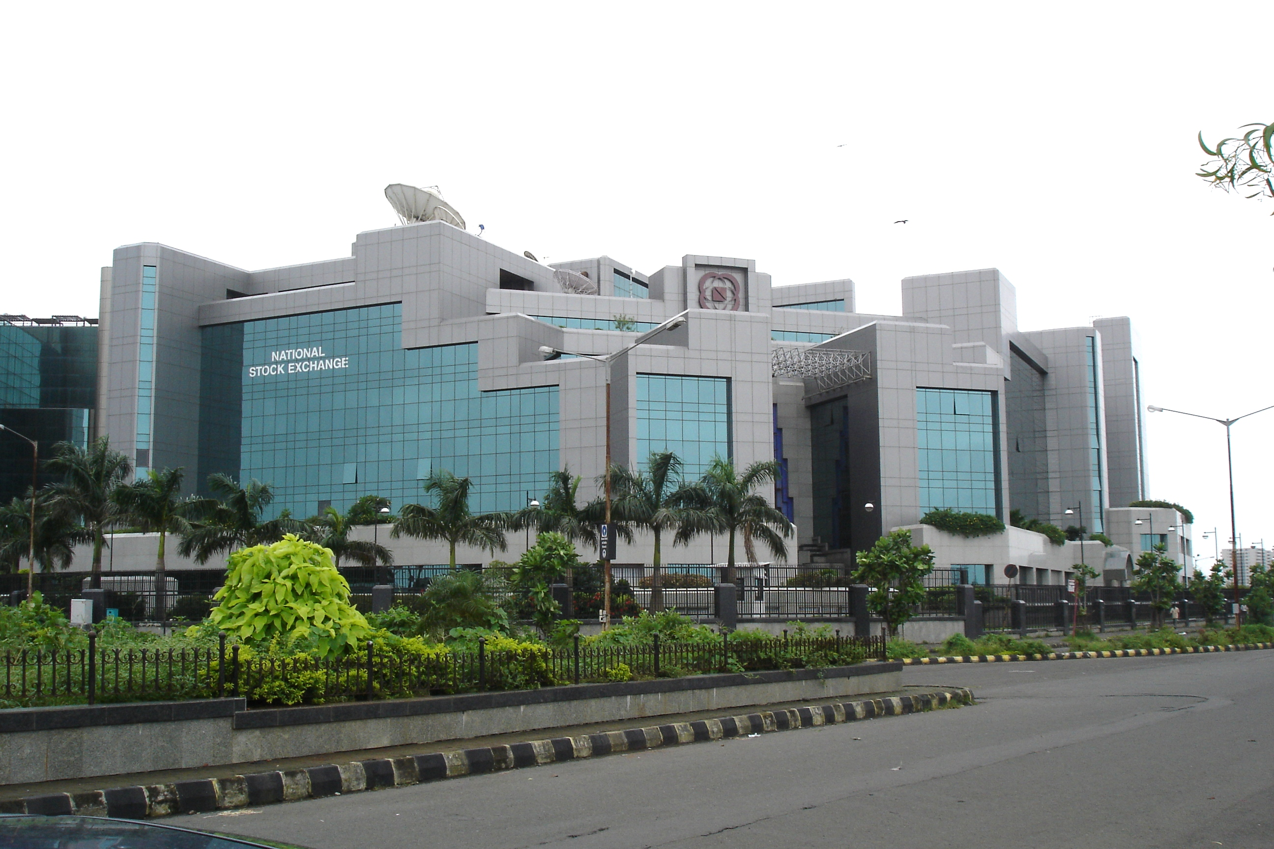 I took this pic